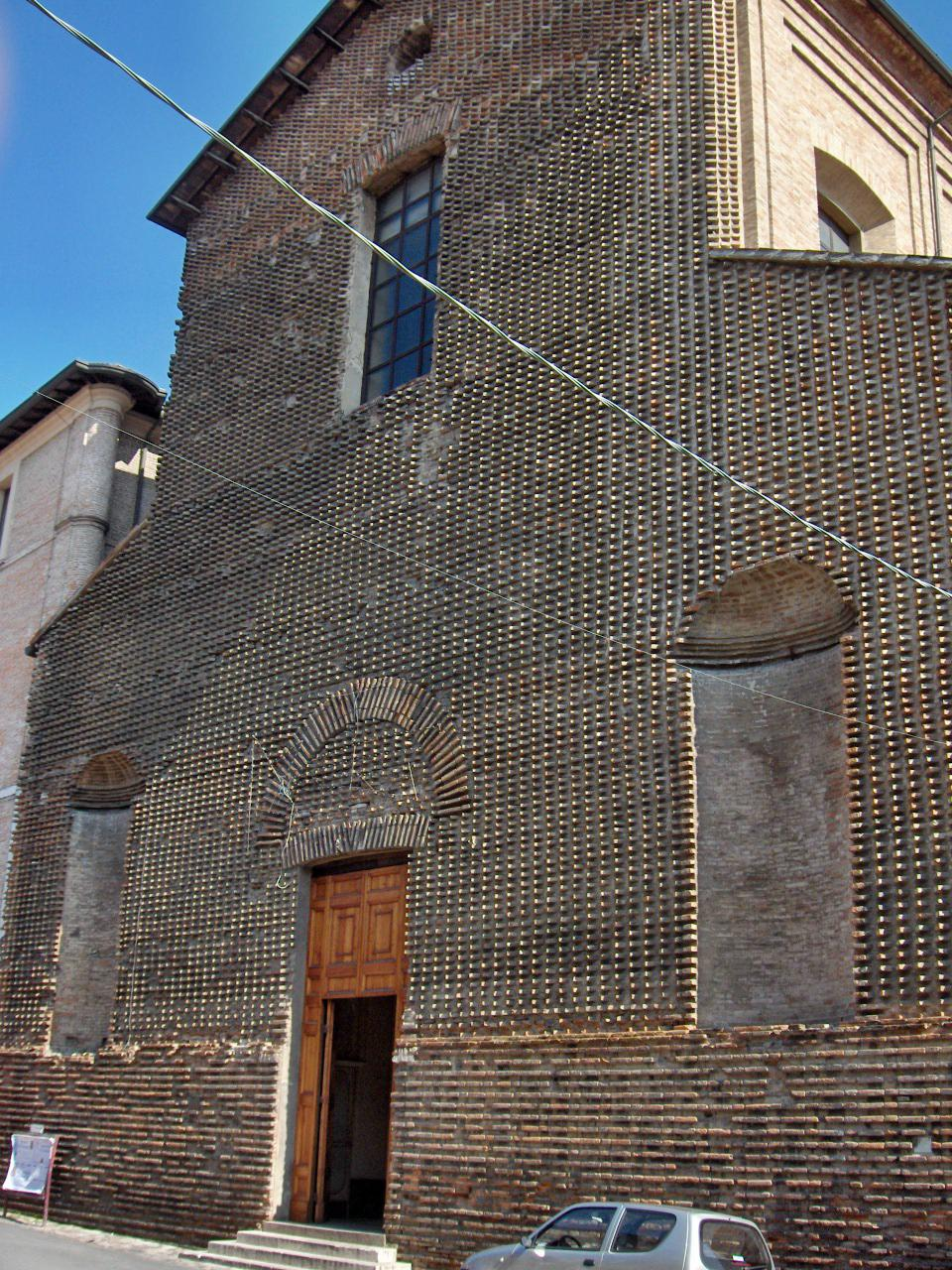 Facade of the "Chiesa del Suffragio"